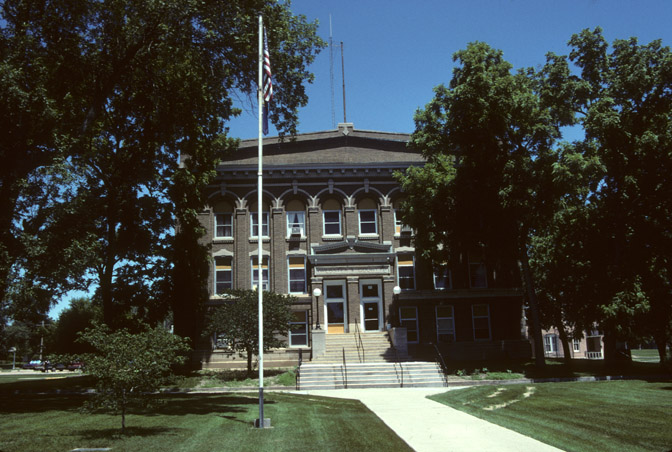 Front of the Webster County Courthouse, located at 225 W. Sixth Street in Red Cloud, Nebraska, United States. Built in 1883, it is listed on the National Register of Historic Places.